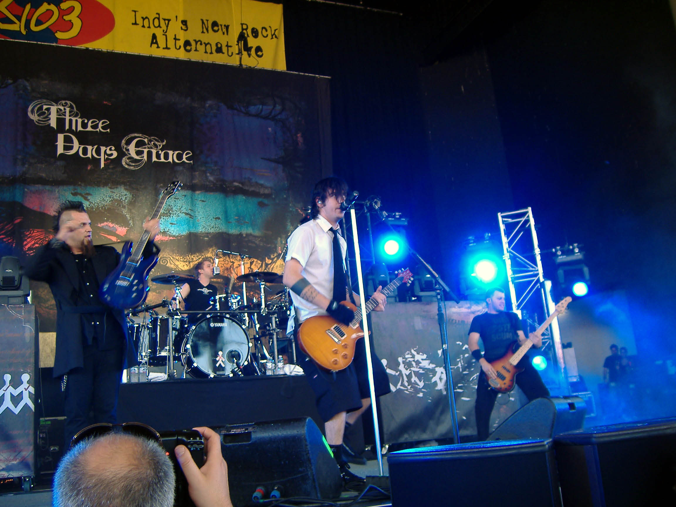 Three Days Grace, live in 2006 Indianpolis's X-Fest with Breaking Benjamin and Seether